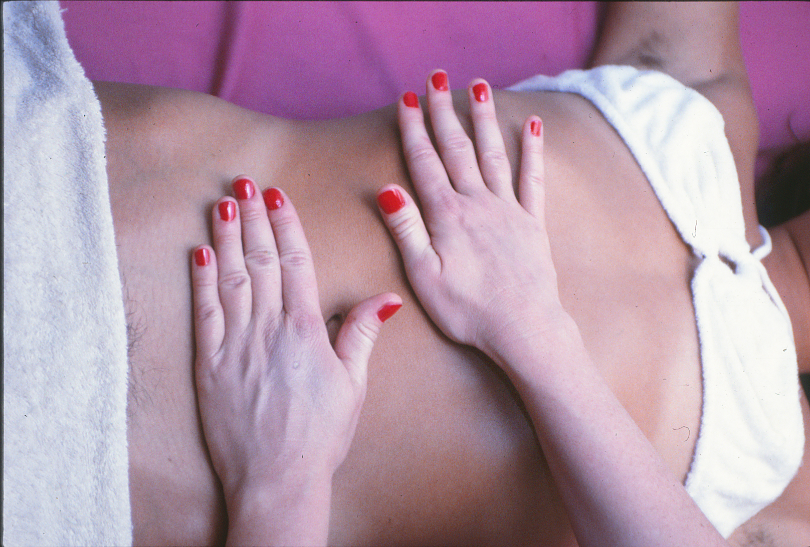 A still shot taken during the video production of Massage For Relaxation in 1985, showing Patty (aka "Cleo") Mooney massaging the abdominal area